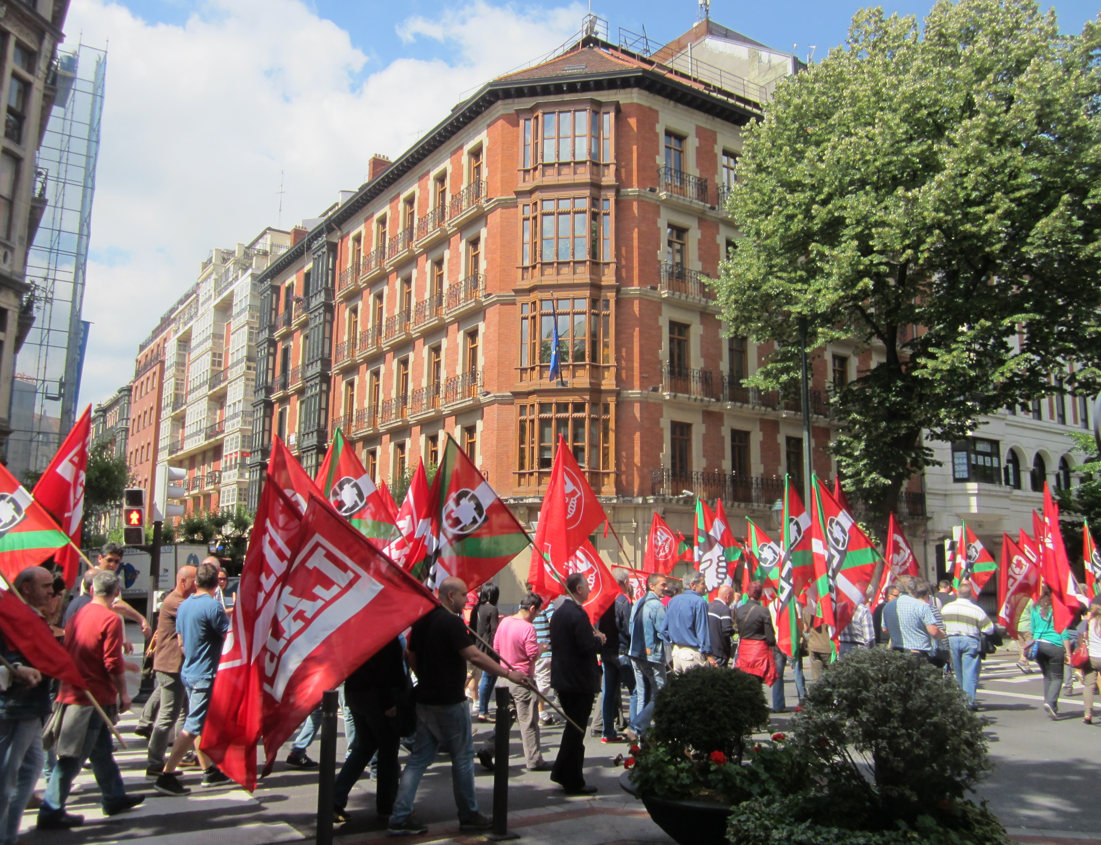 Demonstration demanding the negotiation of the collective labour agreement of the trade of road transport in Biscay, passing by the quarters of the European Agency for Safety and Health at Work (EU-OSHA), in Bilbao, during the strike of June 28, 2013.